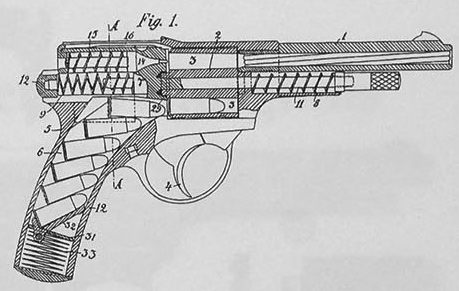 Landstad 1900 Automatic Revolver. From Norwegian patent 8564, April 11 1899.